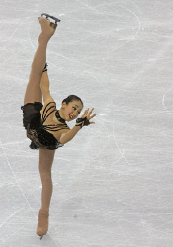 Mao Asada performs a spiral during her long program at the 2009 Four Continents Championships.